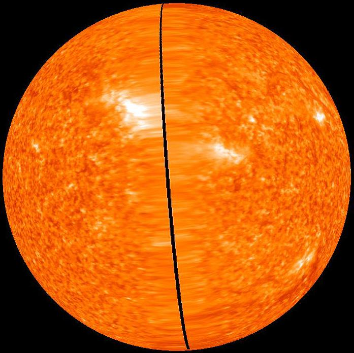 "Latest image of the far side of the Sun based on high resolution STEREO data, taken on February 2, 2011 at 23:56 UT when there was still a small gap between the STEREO Ahead and Behind data. This gap will start to close on February 6, 2011, when the spacecraft achieve 180 degree separation, and will completely close over the next several days."